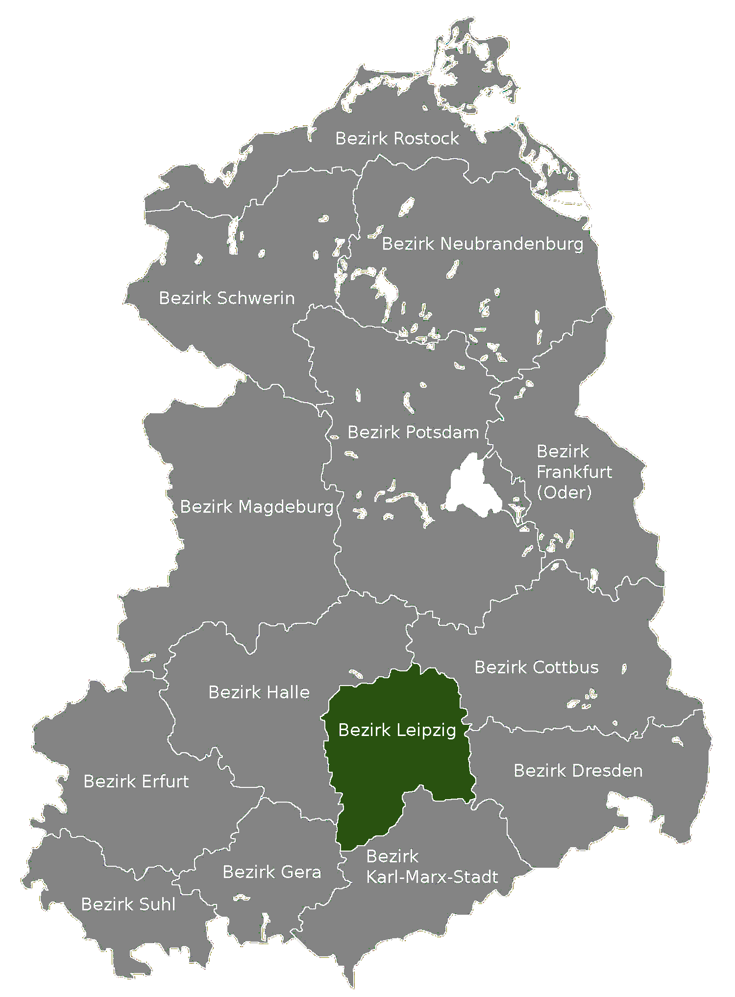 Map based on German Wikipedia